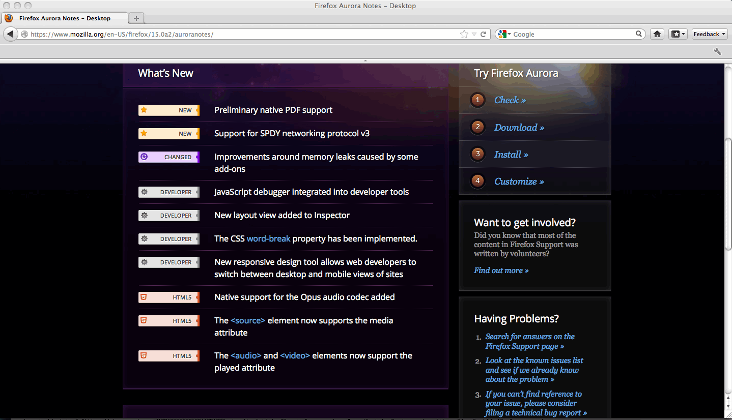 Firefox 15.0 a2 Aurora Screenshot. Firefox 15 Aurora has native support for reading PDF-files.